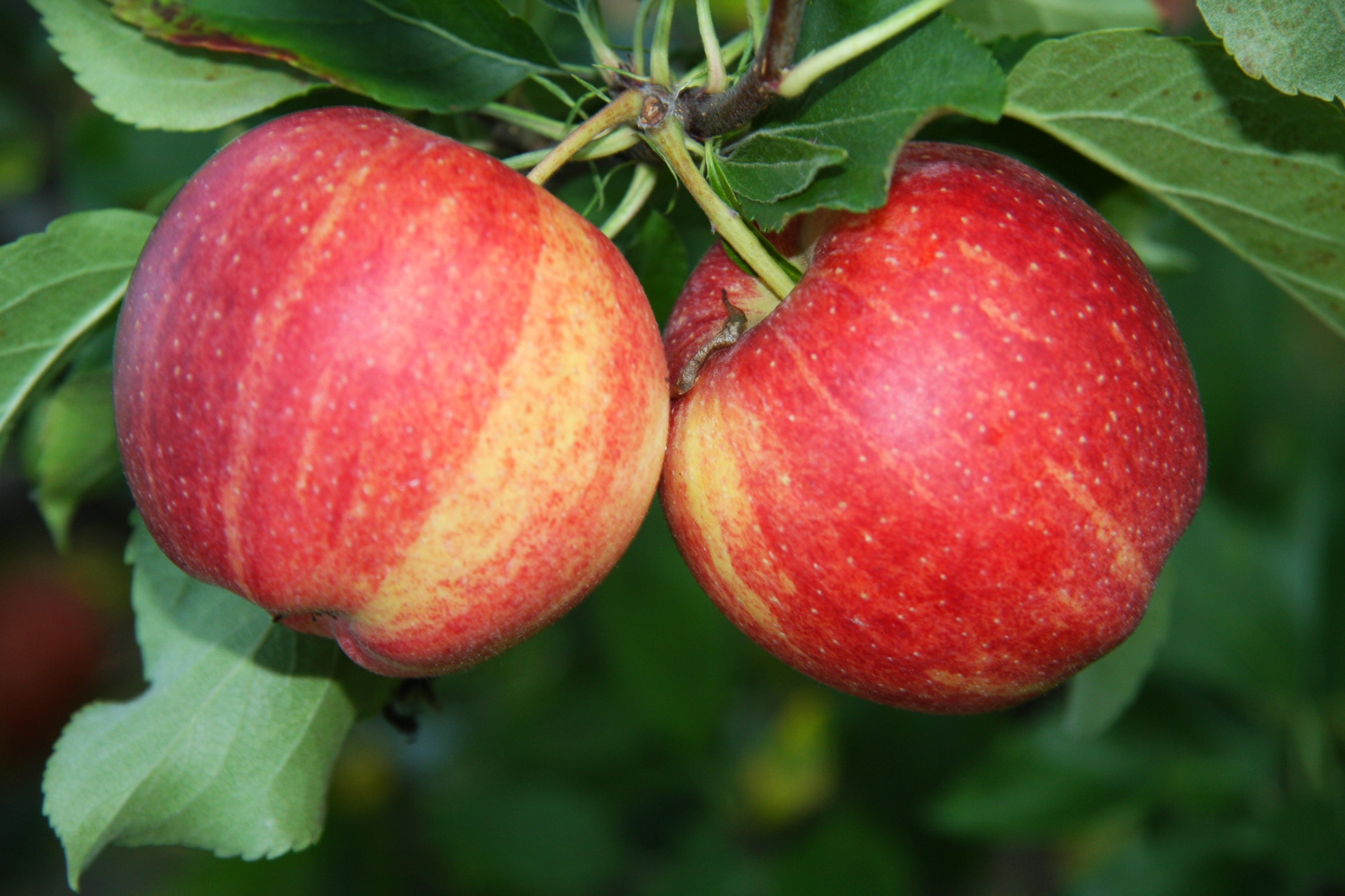 Fruits of Royal Gala clone